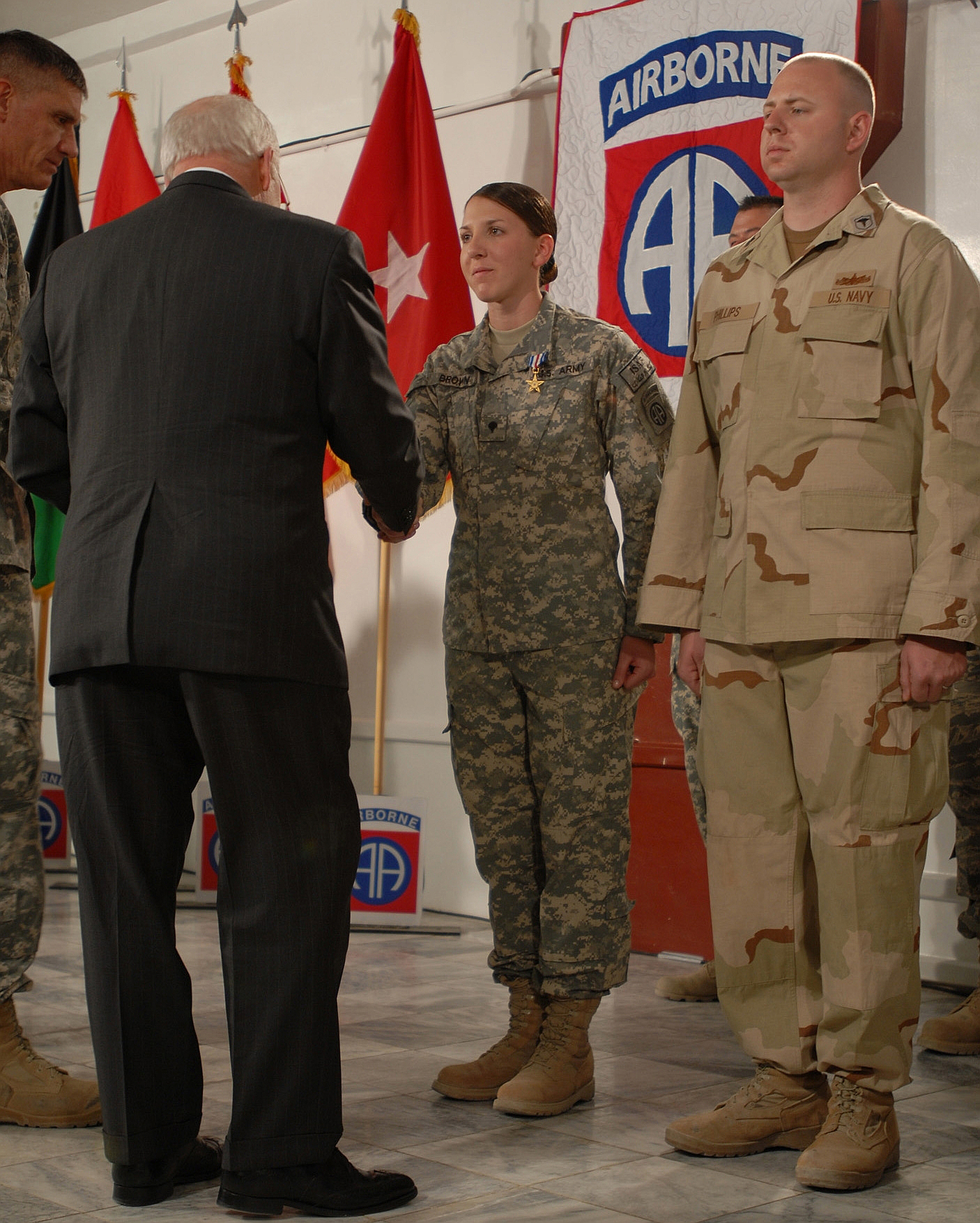 Spc. Monica Brown gets awarded the Silver Star at Bagram Airfield, Afghanistan, by Vice President Dick Cheney for her actions on April 25, 2007, during a combat patrol.